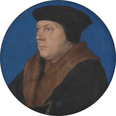 This portrait miniature depicts Thomas Cromwell (c. 1485–1540), Henry VIII's chief minister in the 1530s.